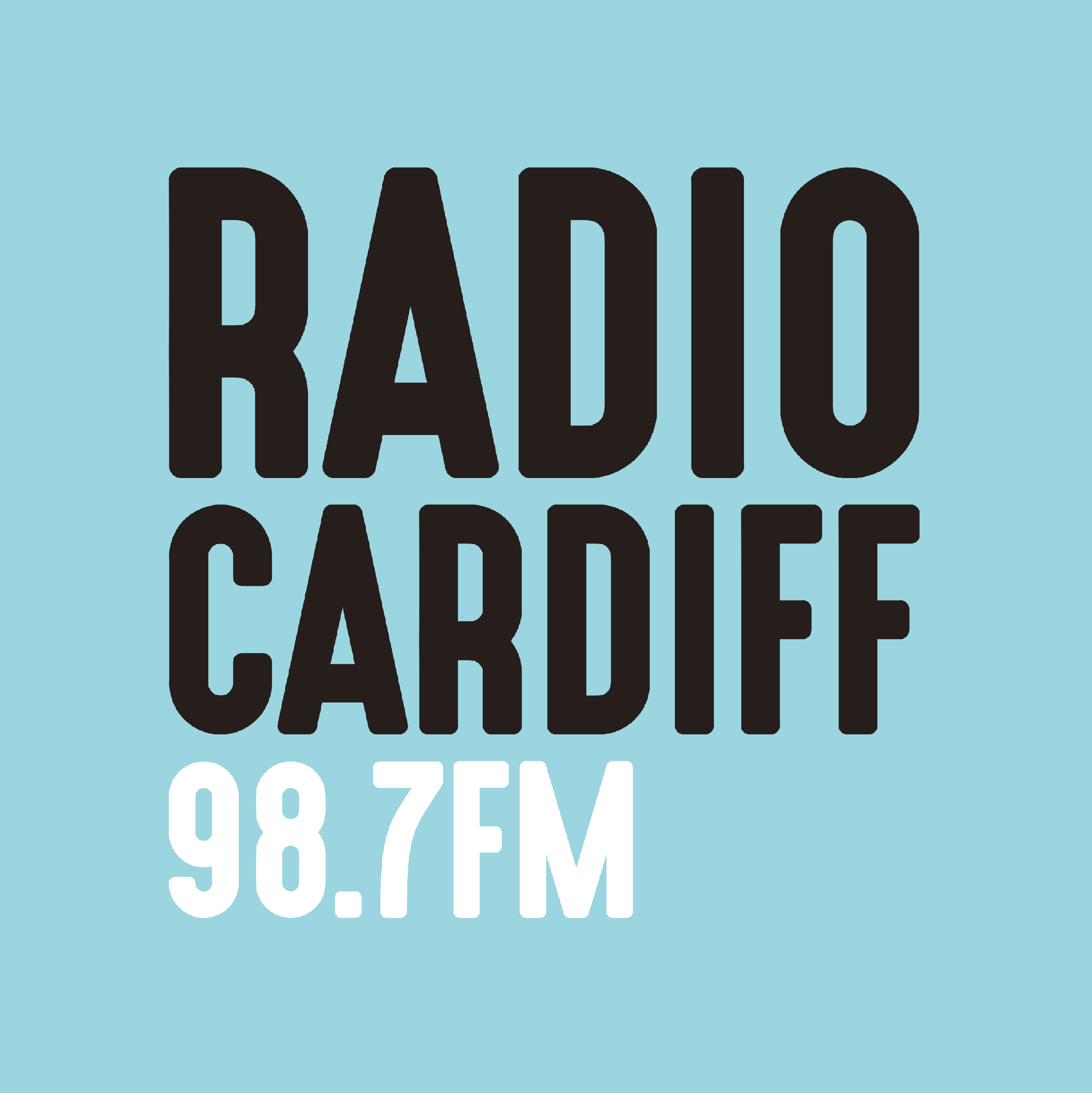 Radio Cardiff logo